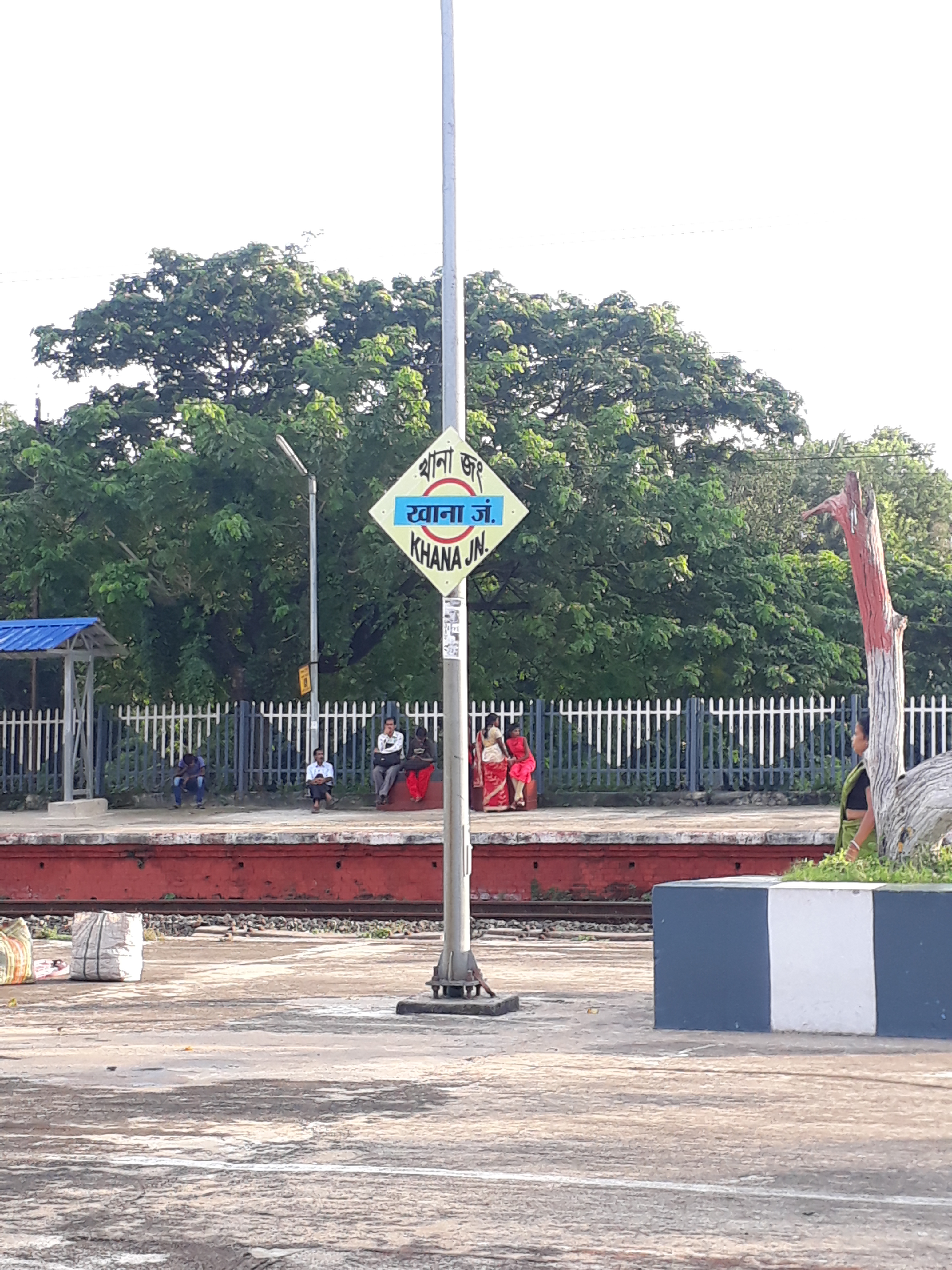 Khana Jn. Station. Burdwan